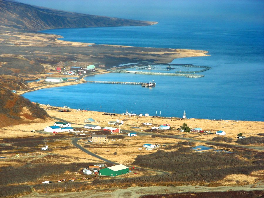 The Port of False Pass, Alaska. The facilities for the new port are now in place. The Port of False Pass is located on Isanotski Strait, midway between the Bering Sea on the north and the Gulf of Alaska on the south. The north entrance-channel to Isanotski Strait is buoyed by USCG and can accommodate vessels up to about 200 ft long. As a result, virtually all boats destined for northern Alaska coming from the lower '48, south-eastern and south-central Alaska, use this pass. Isanotski Strait is free from winter pack ice and only rarely experiences loose drift ice during the coldest winters.